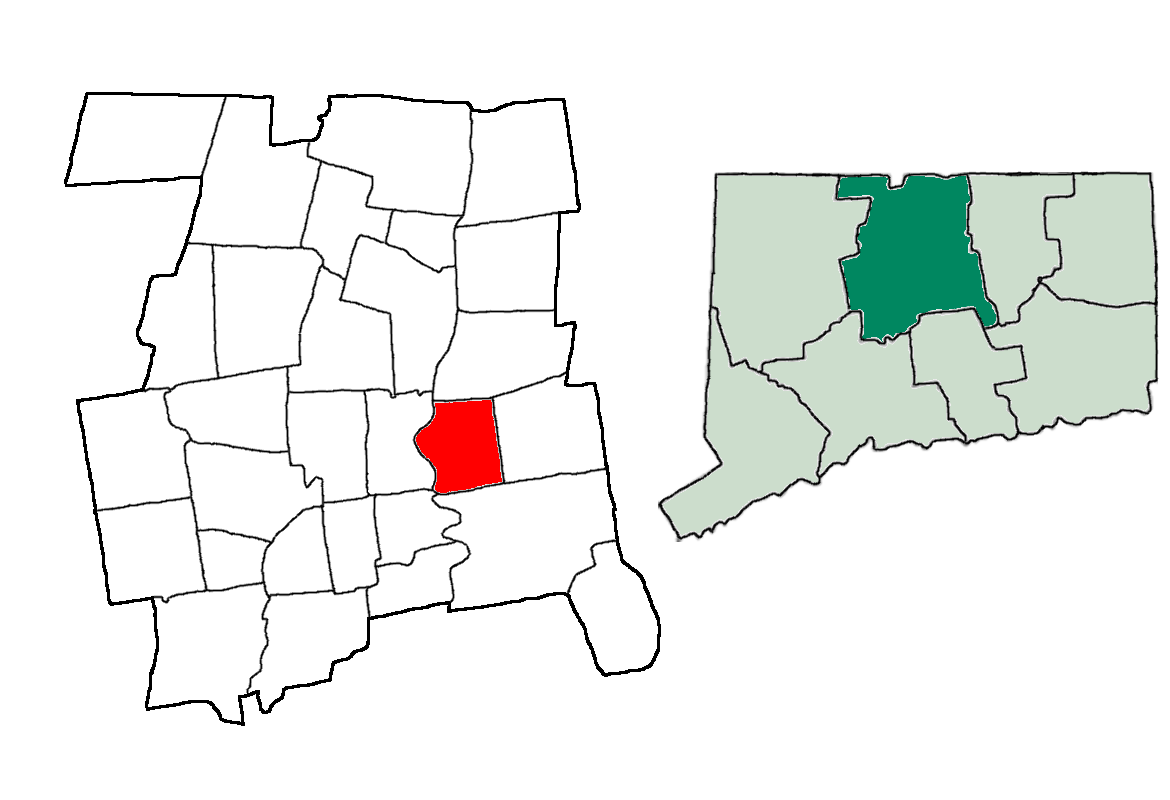 Edited File:Manchester Hartford.png with Microsoft Paint.